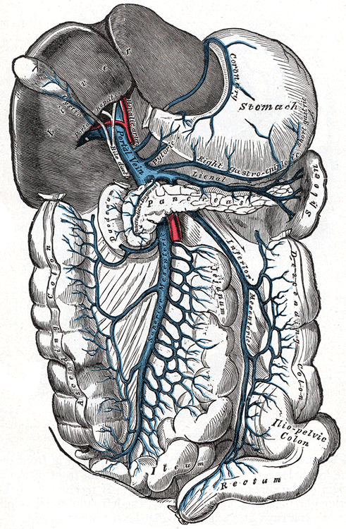 An engraving of the portal vein and its tributaries, including major organs of the gastrointestinal tract. The drawing is originally from Gray's Anatomy; the 1918 copyright has expired, and thus the image is in the public domain.